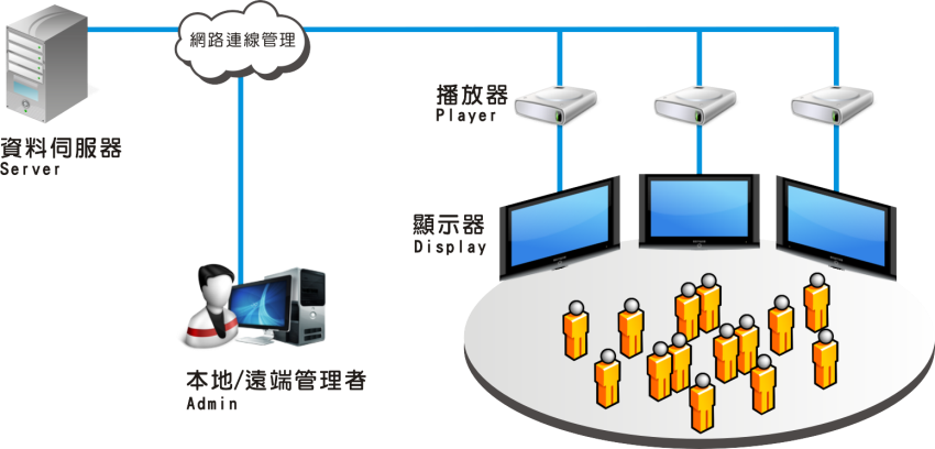 optikview